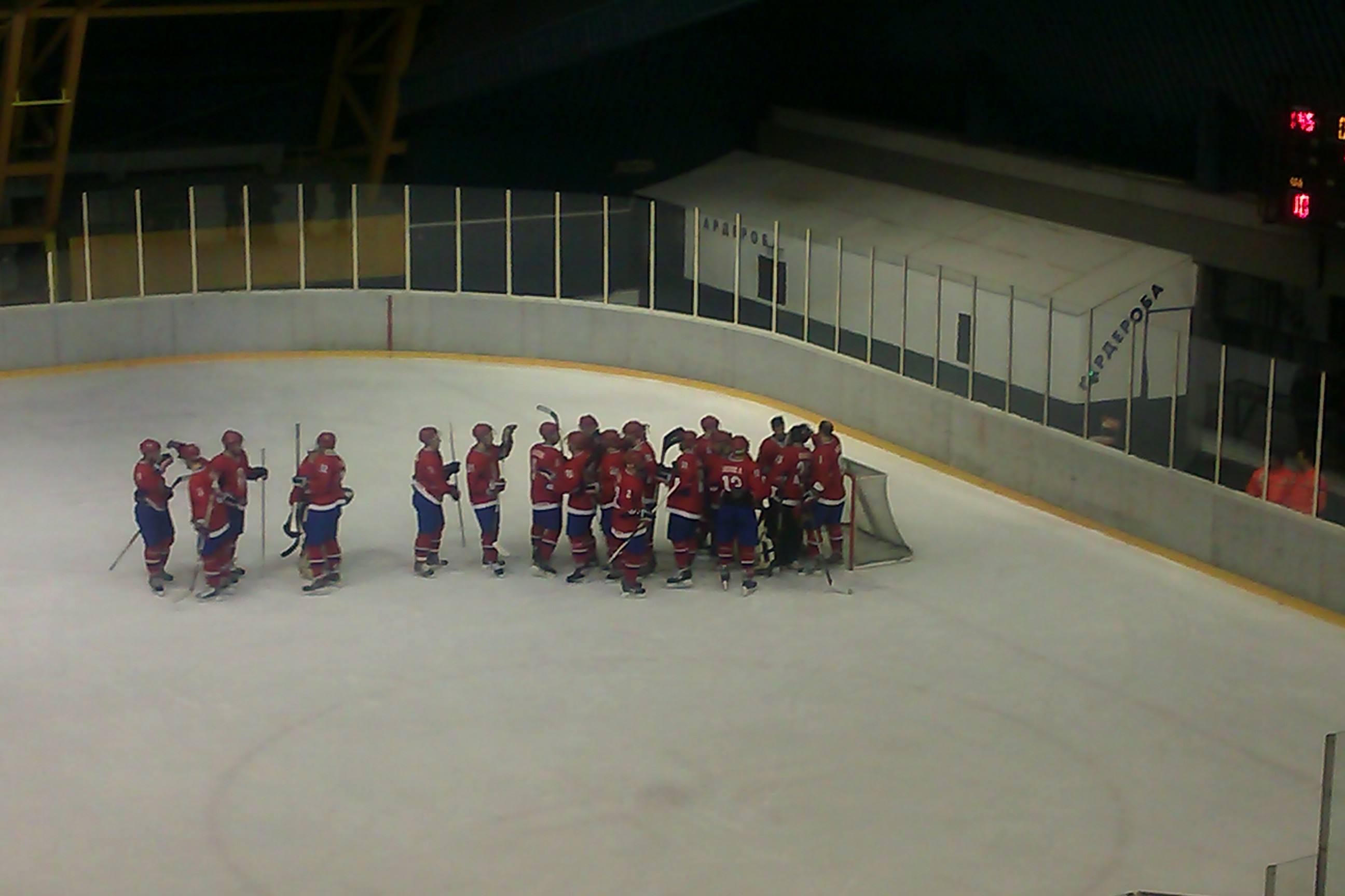 2014 IIHF World Championship Division II Serbia - Israel 10:6 in Belgrade 10. april 2014Српски (ћирилица): Светско првенство у хокеју на леду 2014 — Дивизија II, Србија - Израел 10:6 у Београду 10. априла 2014